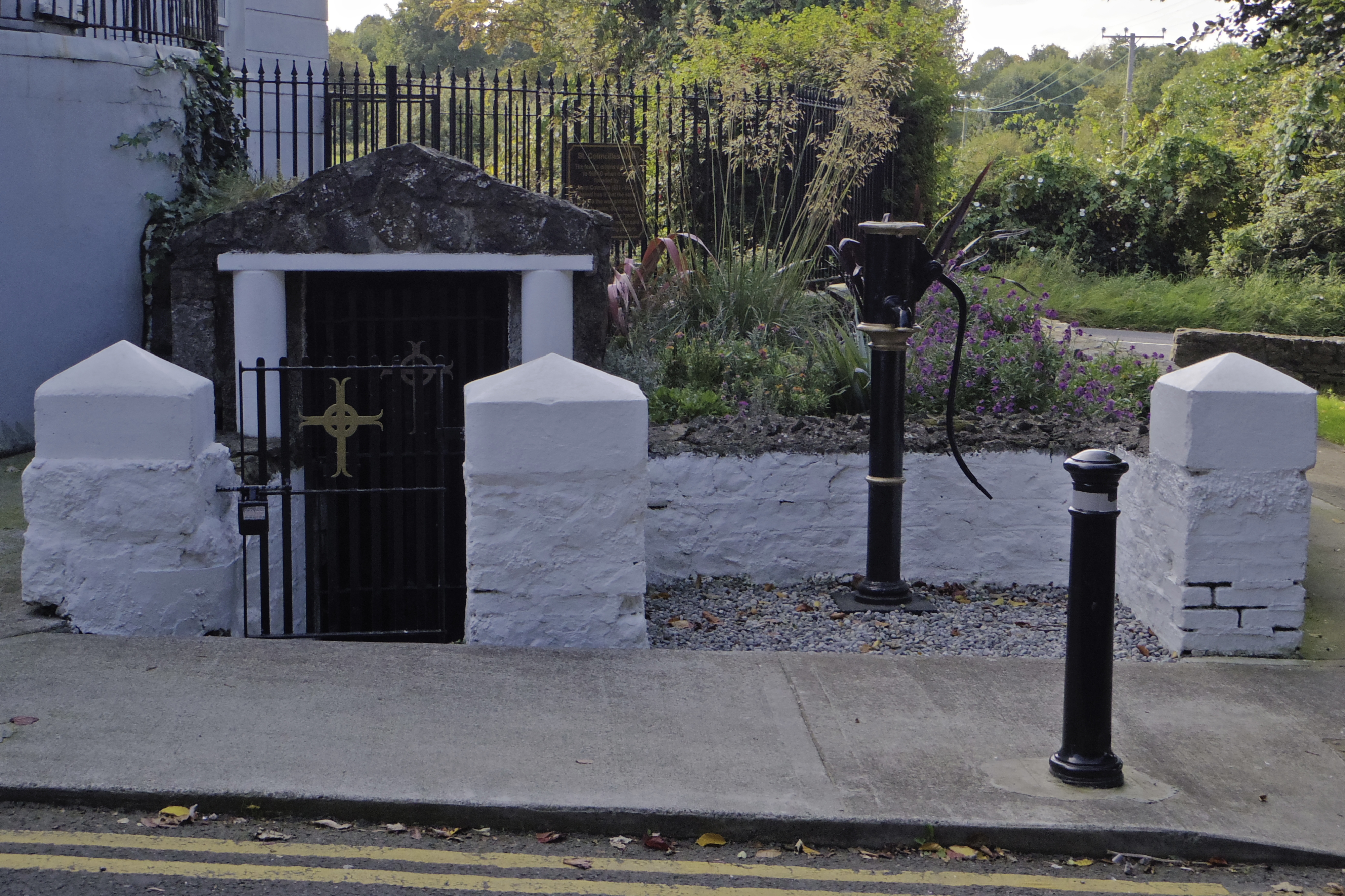 County Dublin, Townparks Holy Well-St Colmcilles Well. Wikidata has entry Q33123146 with data related to this item.